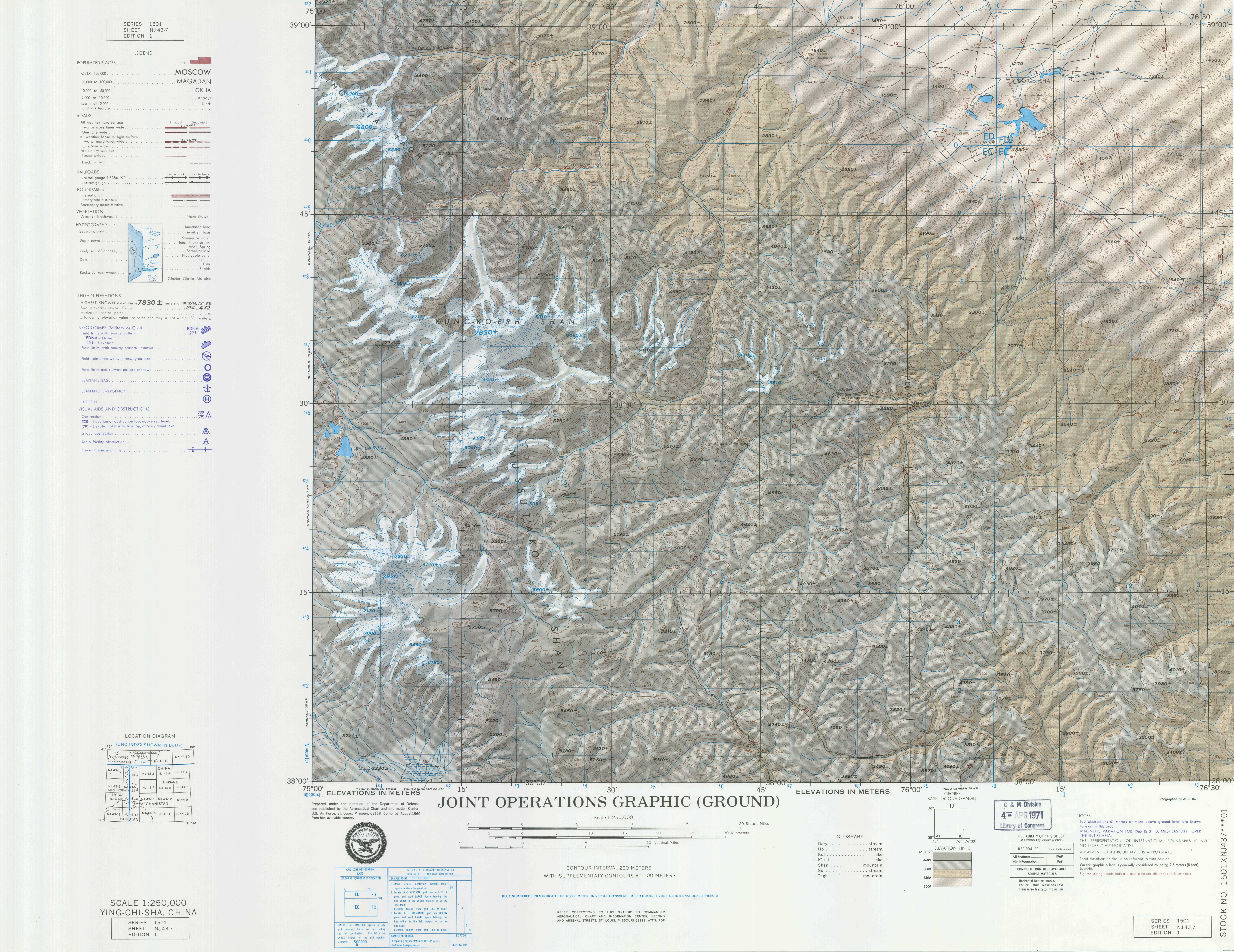 NJ-43-7 Ying-Chi-Sha, China